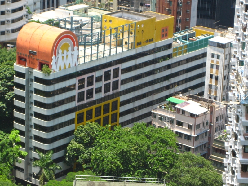 聖雅各福群會多元化社區服務中心(灣仔zh:石水渠街85號)St. James' Settlement Community Centre(85 Stone Nullah Lane)